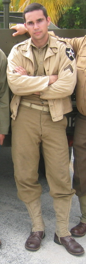 A world war two reenactor posing for a picture during a South Florida living history. He is wearing a reproduction M1941 Field Jacket.